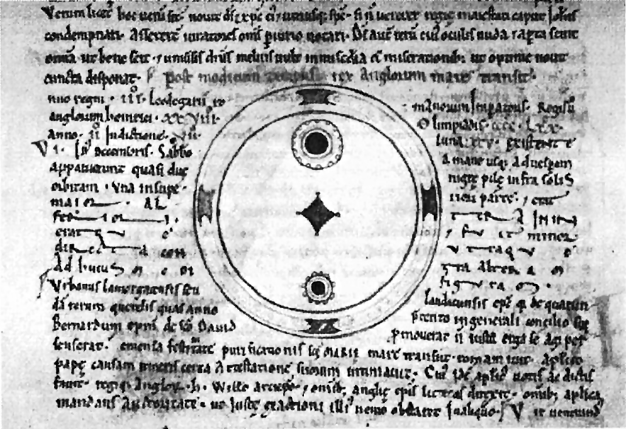 The earliest known record of a sun spot drawing in 1128, by John of Worcester. "The Chronicle of John of Worcester", date=1128 currently residing in Corpus Christi College, Oxford, page=380 MS 157